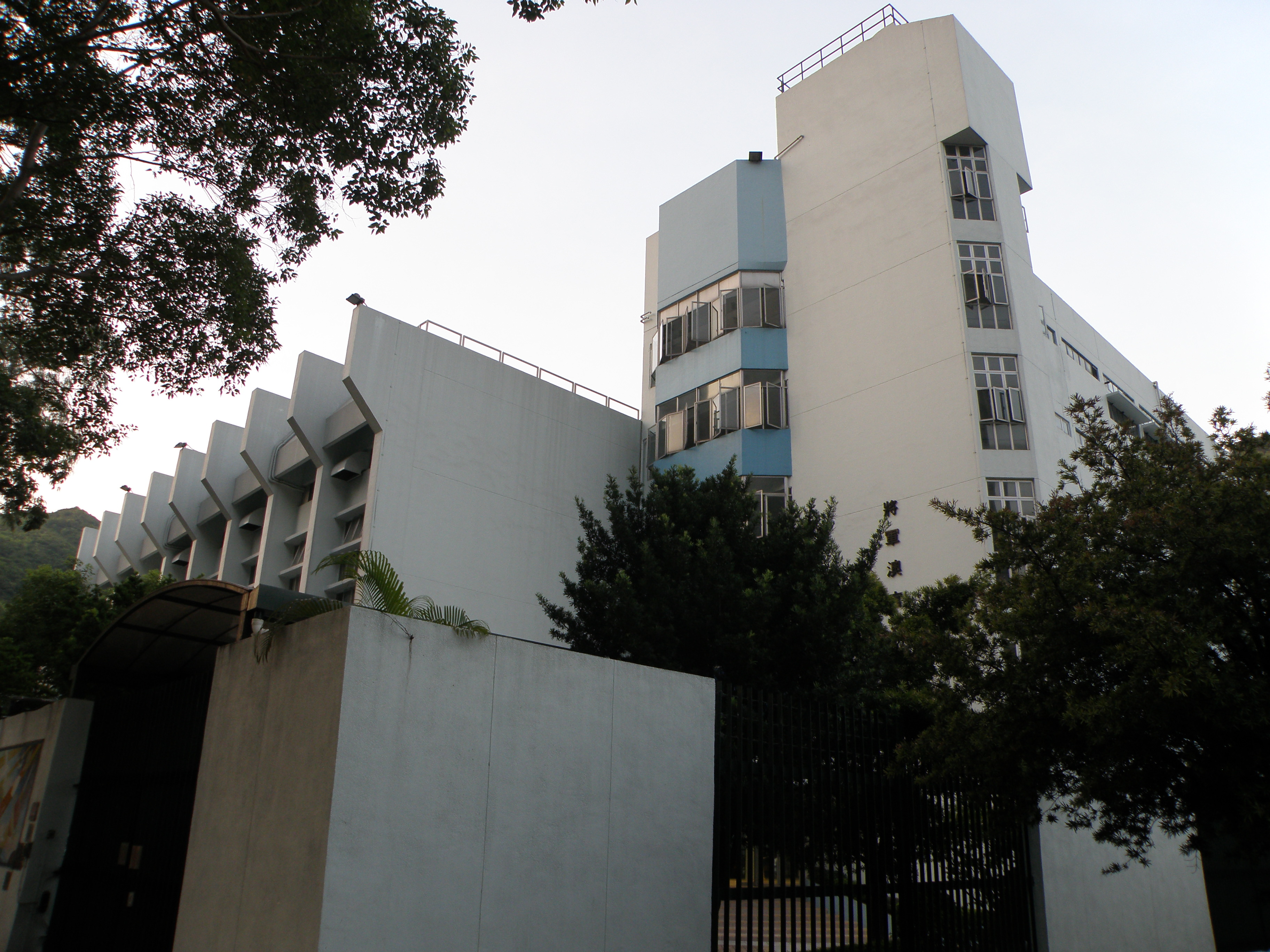 Tseung Kwan O Government Secondary School in Tseung Kwan O, Hong Kong.